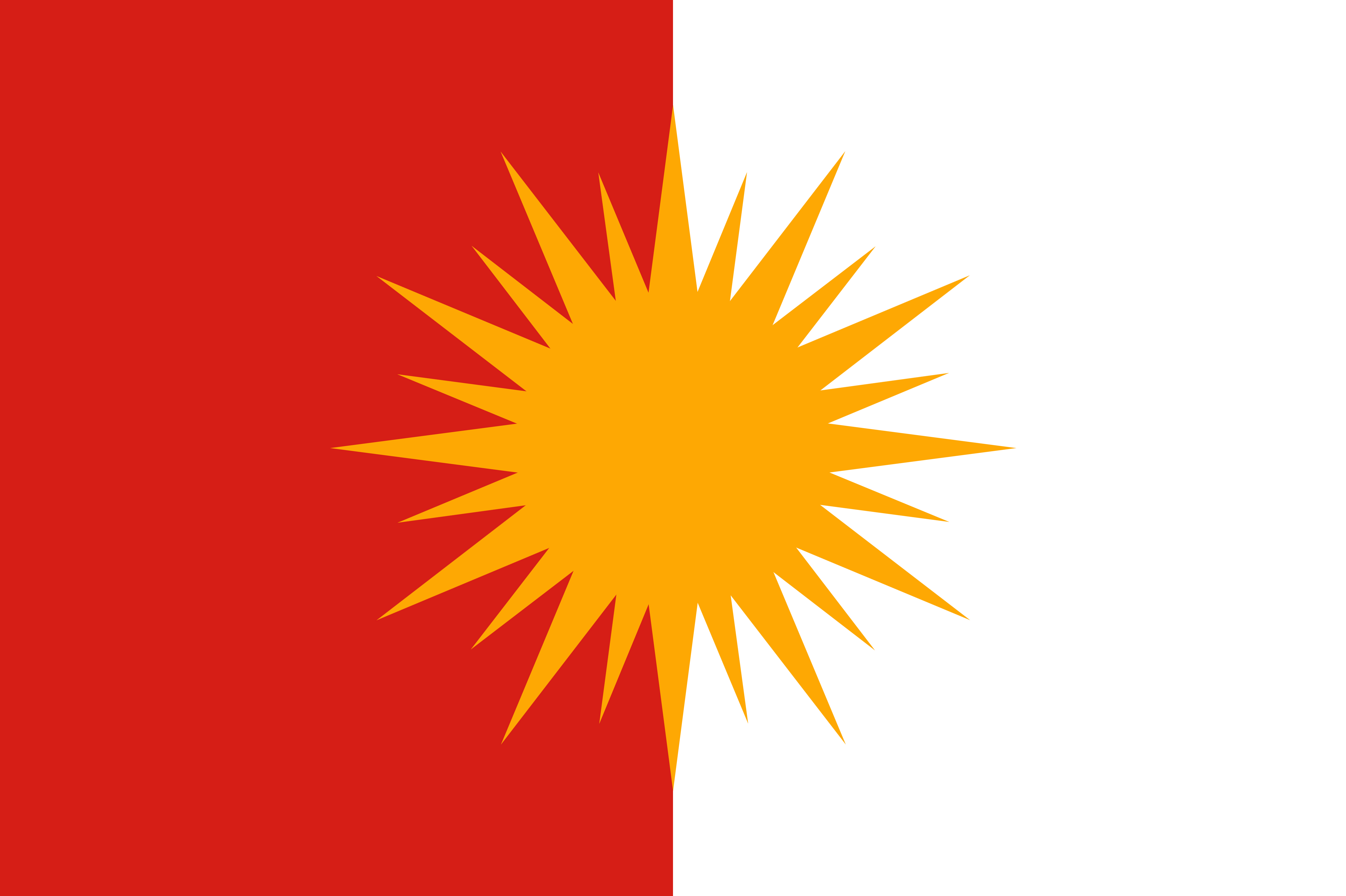 Flag of The Yezidi Party in Iraq